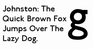 Font sample of Johnston. Created using commercially available P22 Johnston Underground font.